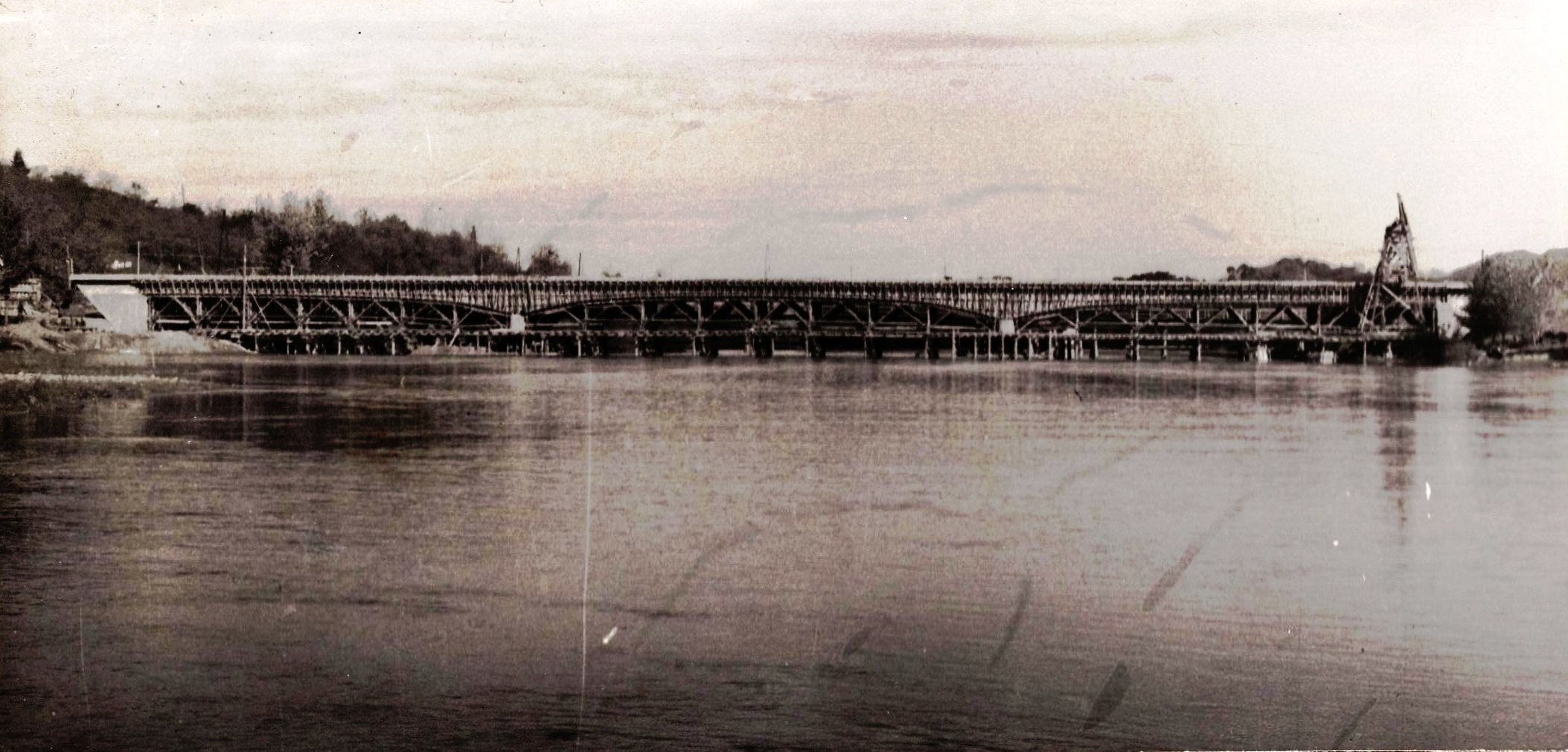 The construction of the bridge near Malosiste, Gevgelija. The bridge connects the motorway Ljubljana-Gevgelija (1950s). This media file is produced by Wikipedian in Residence in Category:Wikipedian in Residence at DARM in 2017.